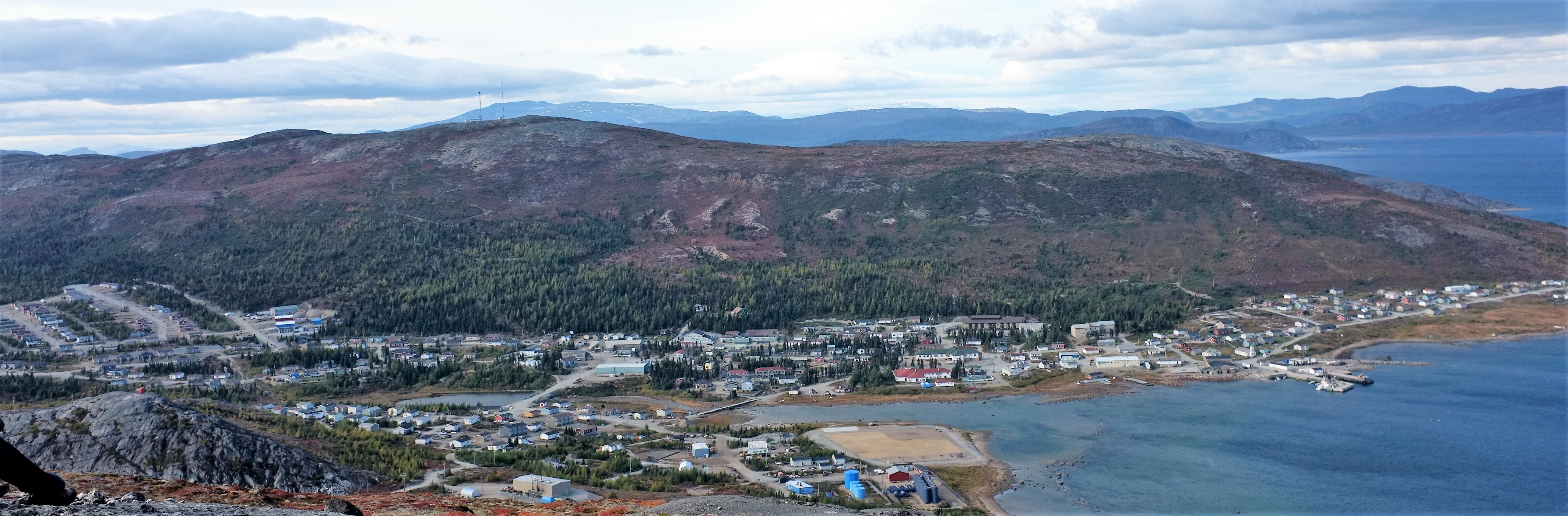 Nain, NL as viewed from Mt. Sophie taken on Sept 24, 2011 during the 2011 Action Canada Conference